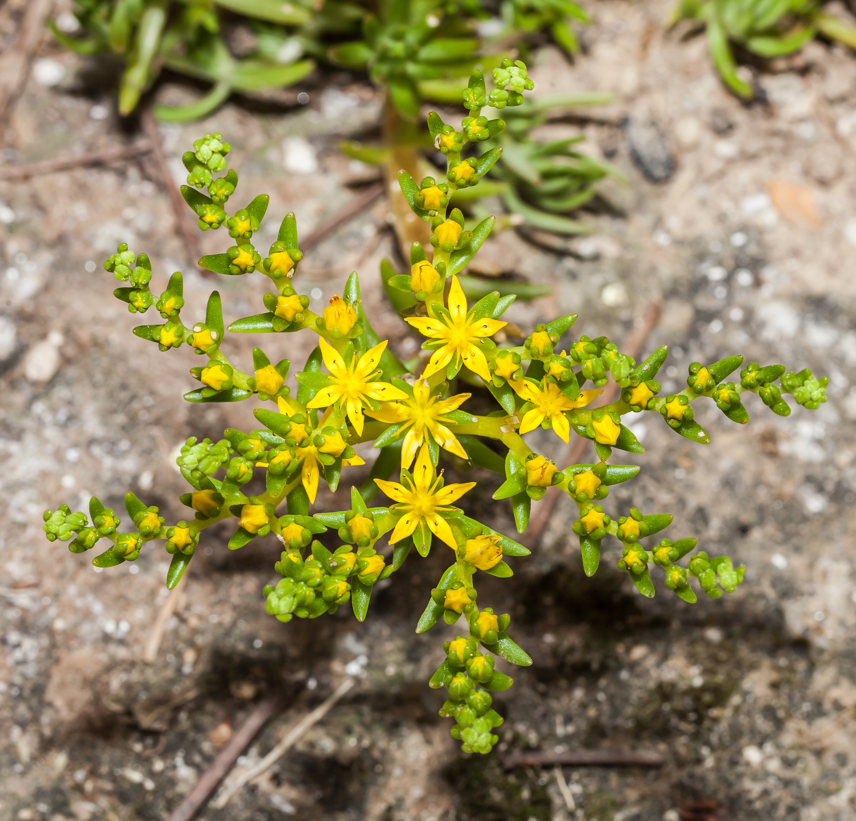 Sedum montanum in Valverde, Vilarromarís, Oroso, Galicia, SpainGalego: Sedum montanum en Valverde, Vilarromarís, Oroso, Galiza Determinada en por Alfredo Barra, Angela Canet.